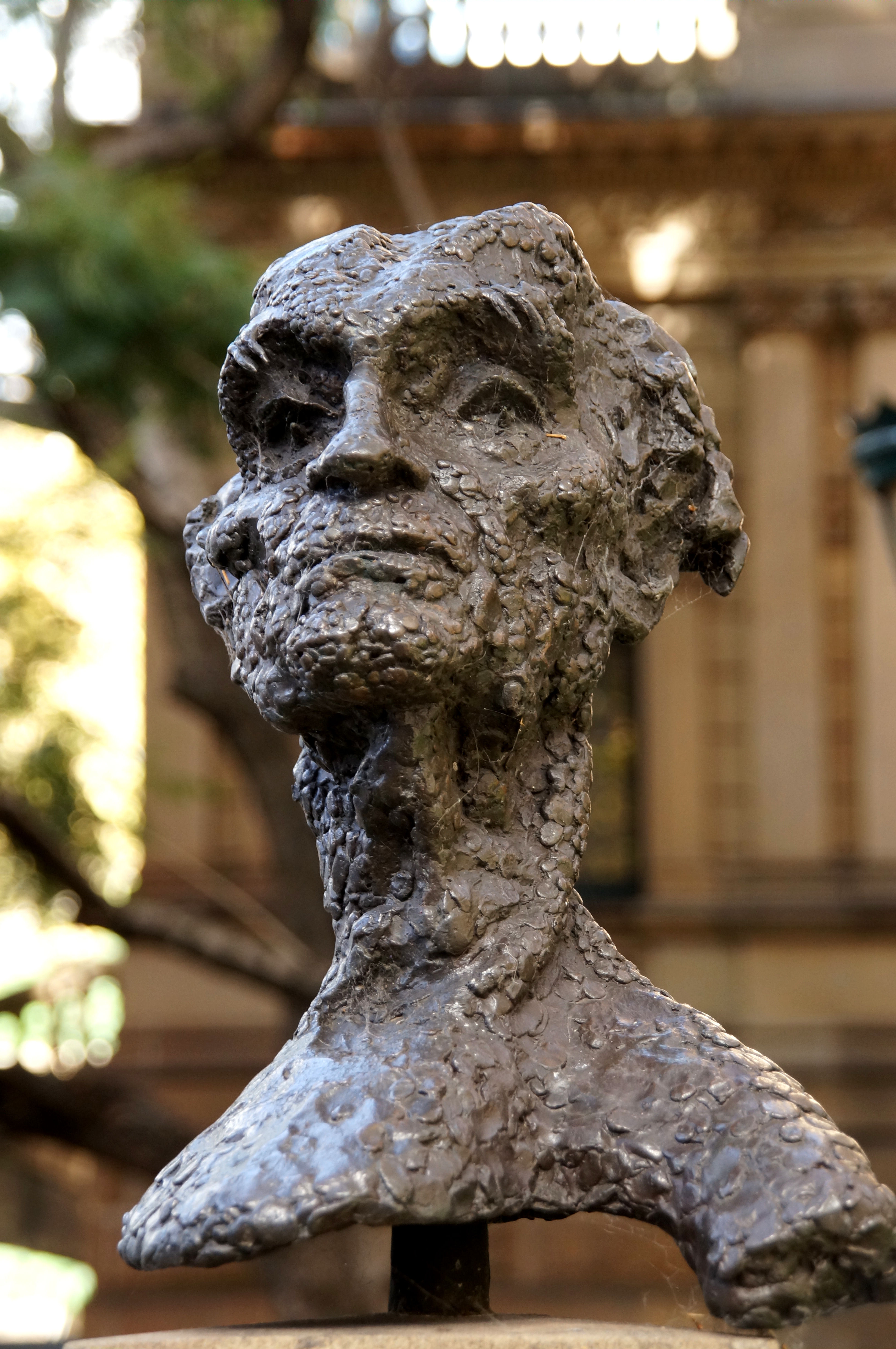 Sculpture of the Australischen painter Lloyd Rees by Lawrence Beck at the town hall of Sydney, Australia This reproduction is permitted under the Australian Copyright Act, sections 65–68, which state (emphasis added): (65) (1) This section applies to sculptures and to works of artistic craftsmanship of the kind referred to in paragraph (c) of the definition of artistic work in section 10. (2) The copyright in a work to which this section applies that is situated, otherwise than temporarily, in a public place, or in premises open to the public, is not infringed by the making of a painting, drawing, engraving or photograph of the work or by the inclusion of the work in a cinematograph film or in a television broadcast. (66) The copyright in a building or a model of a building is not infringed by the making of a [reproduction]. (68) The copyright in an artistic work is not infringed by the publication of a [reproduction] if, by virtue of section 65, section 66 or section 67, the making of […] did not constitute an infringement of the copyright. This freedom applies to two-dimensional works only if they are considered "artistic works." See COM:CRT/Australia#FOP for more information. English | français | +/−